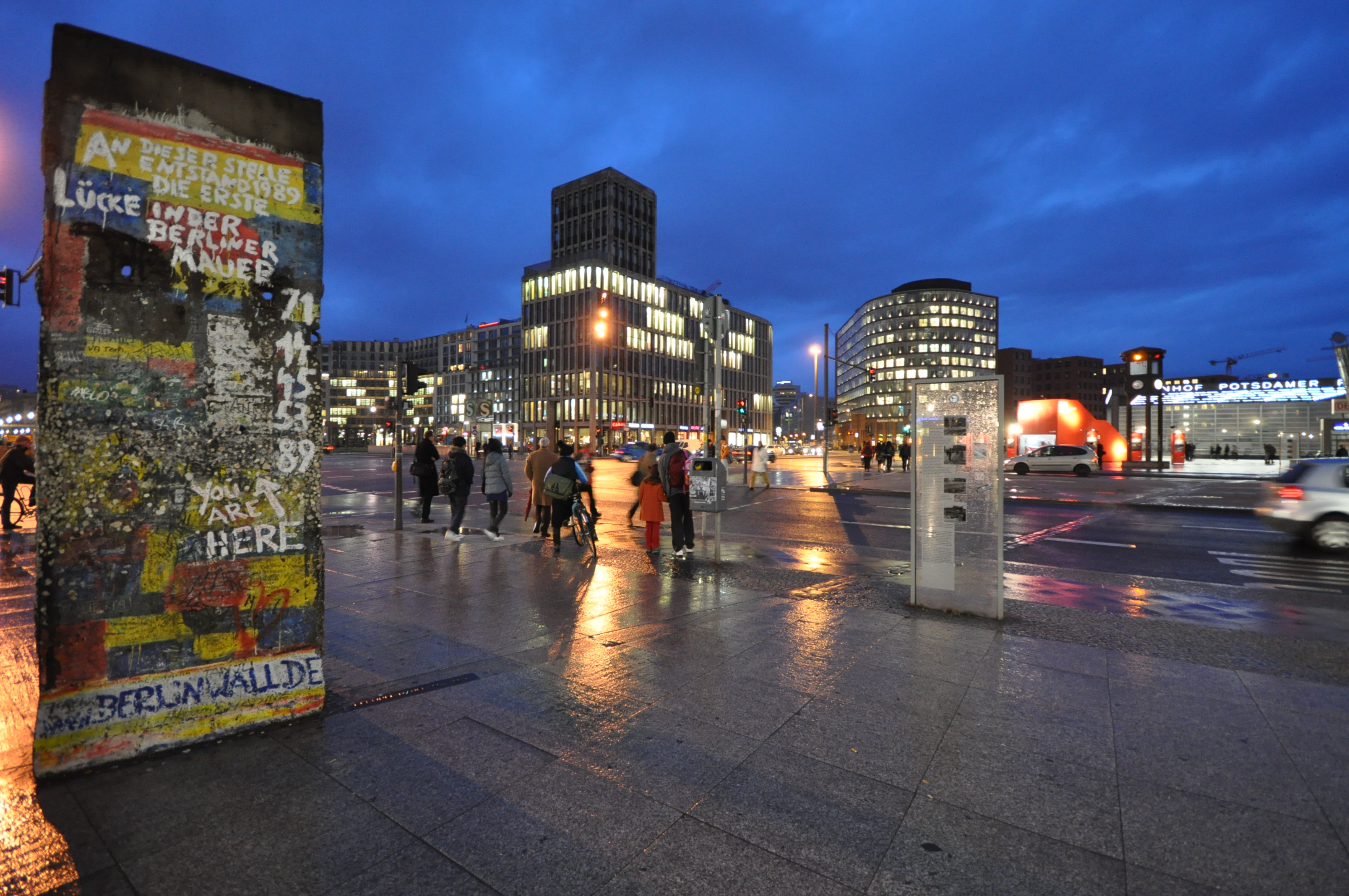 Short section of the Berlin Wall at Potsdamer Platz (Berlin, Germany). The white painted text in the upper third of the section reads: "At this place, the first crevice/hole in the Berlin Wall was created".